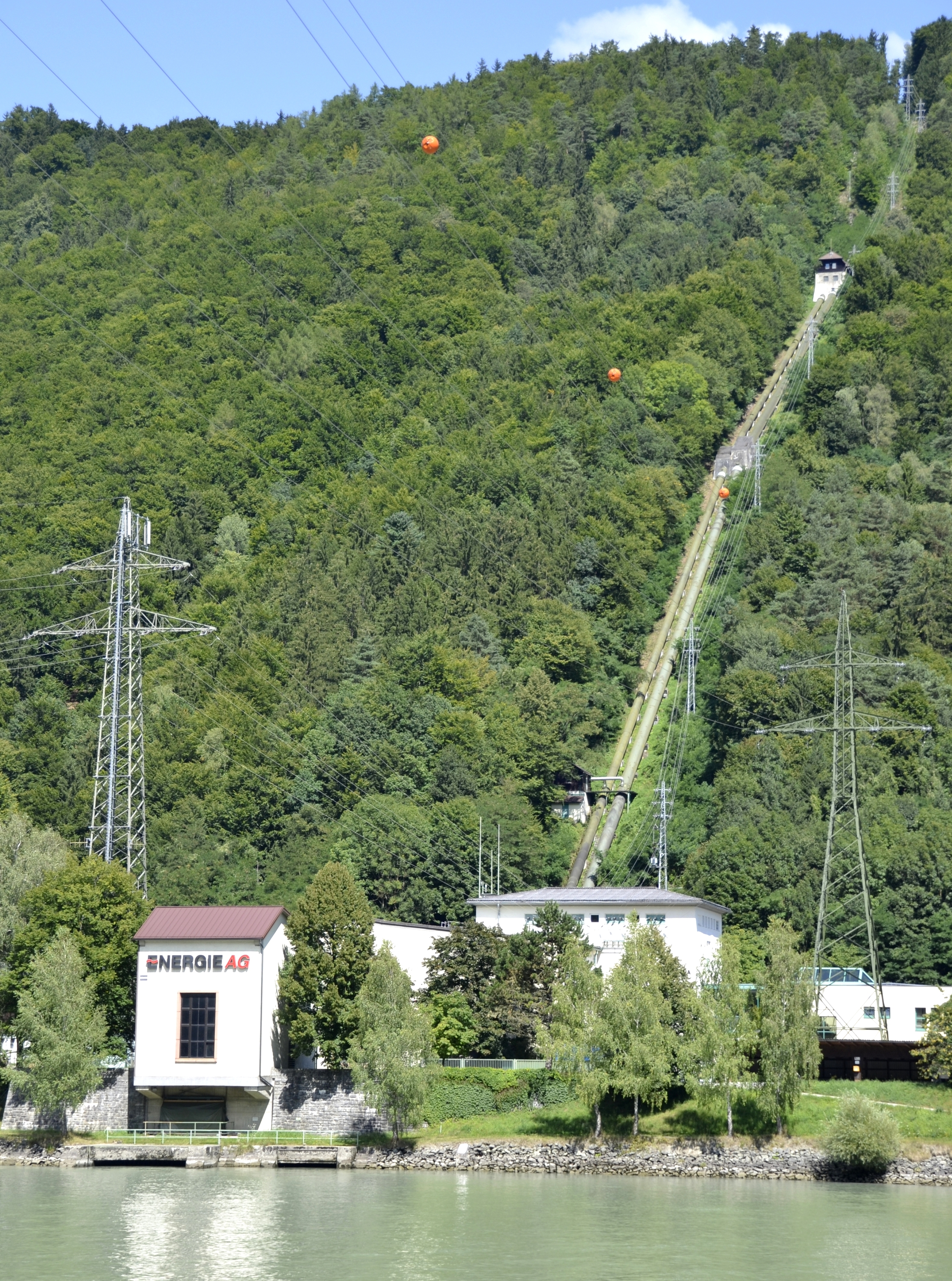 The pumped-storage hydroelectricity power plant Ranna in Bezirk Rohrbach in Upper Austria.